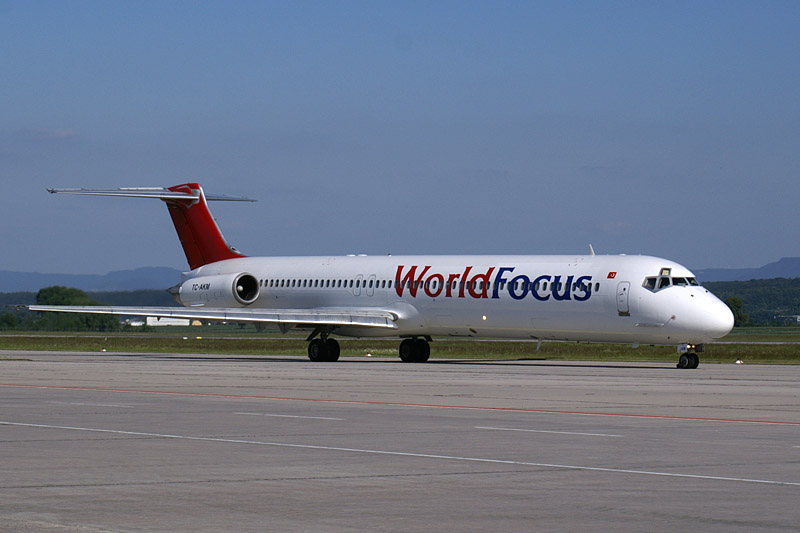 World Focus Airlines MD-83 TC-AKM in June 2006. This plane would be destroyed in a crash on November 30, 2007.